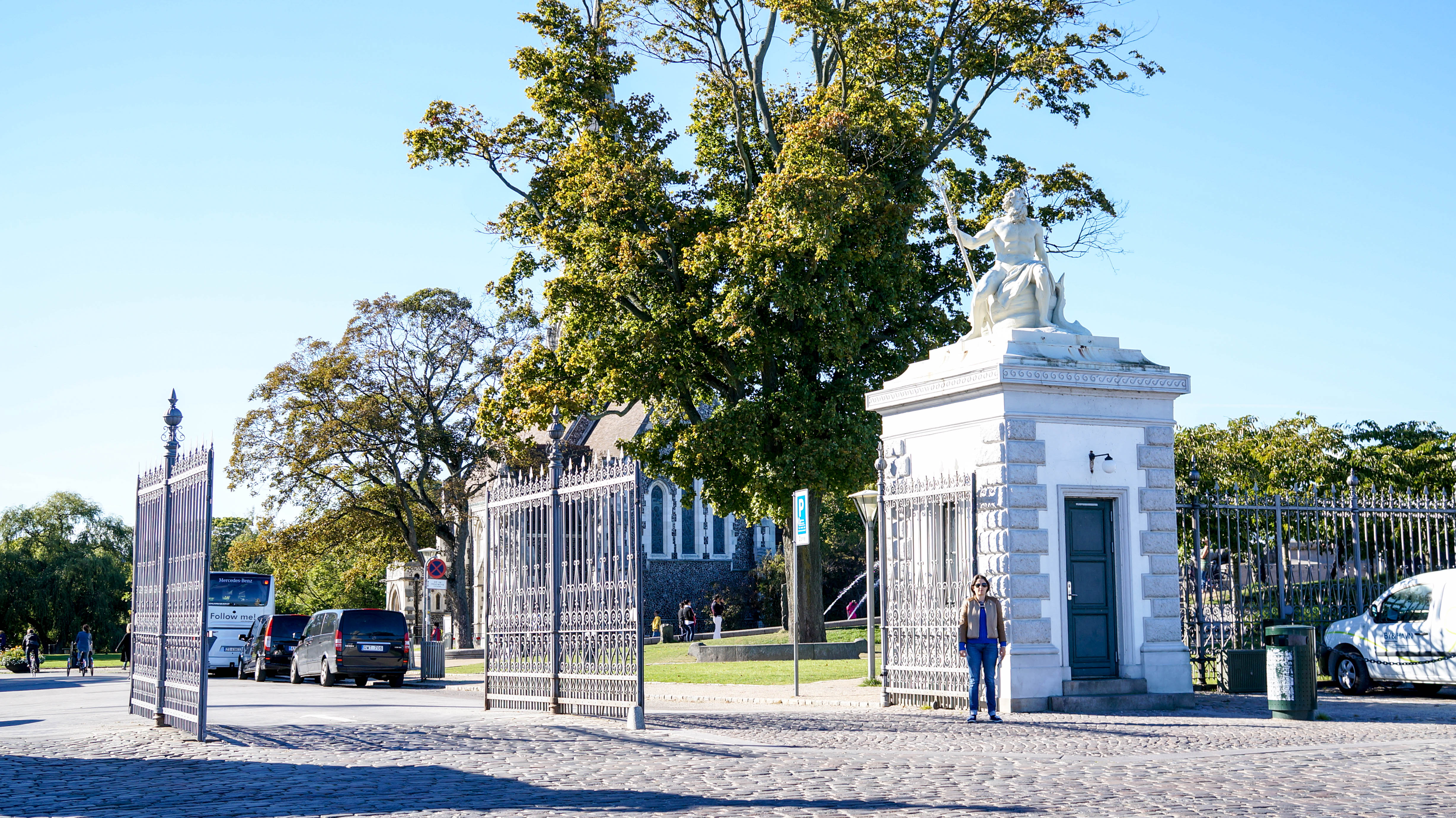 The old gate to the freeport at Nordre Toldbod in Copenhagen, Denmark